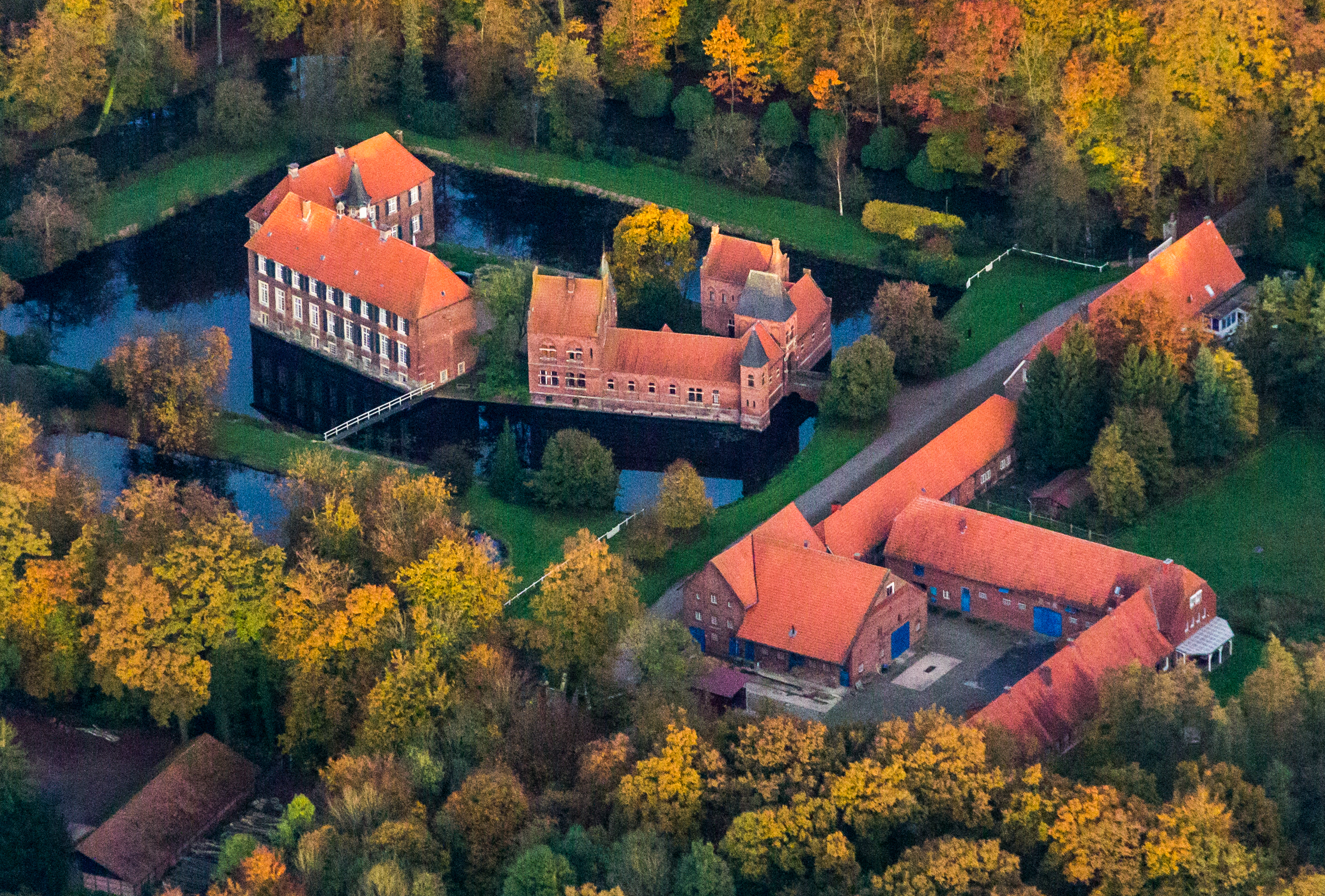 Egelborg Manor, Legden, North Rhine-Westphalia, Germany